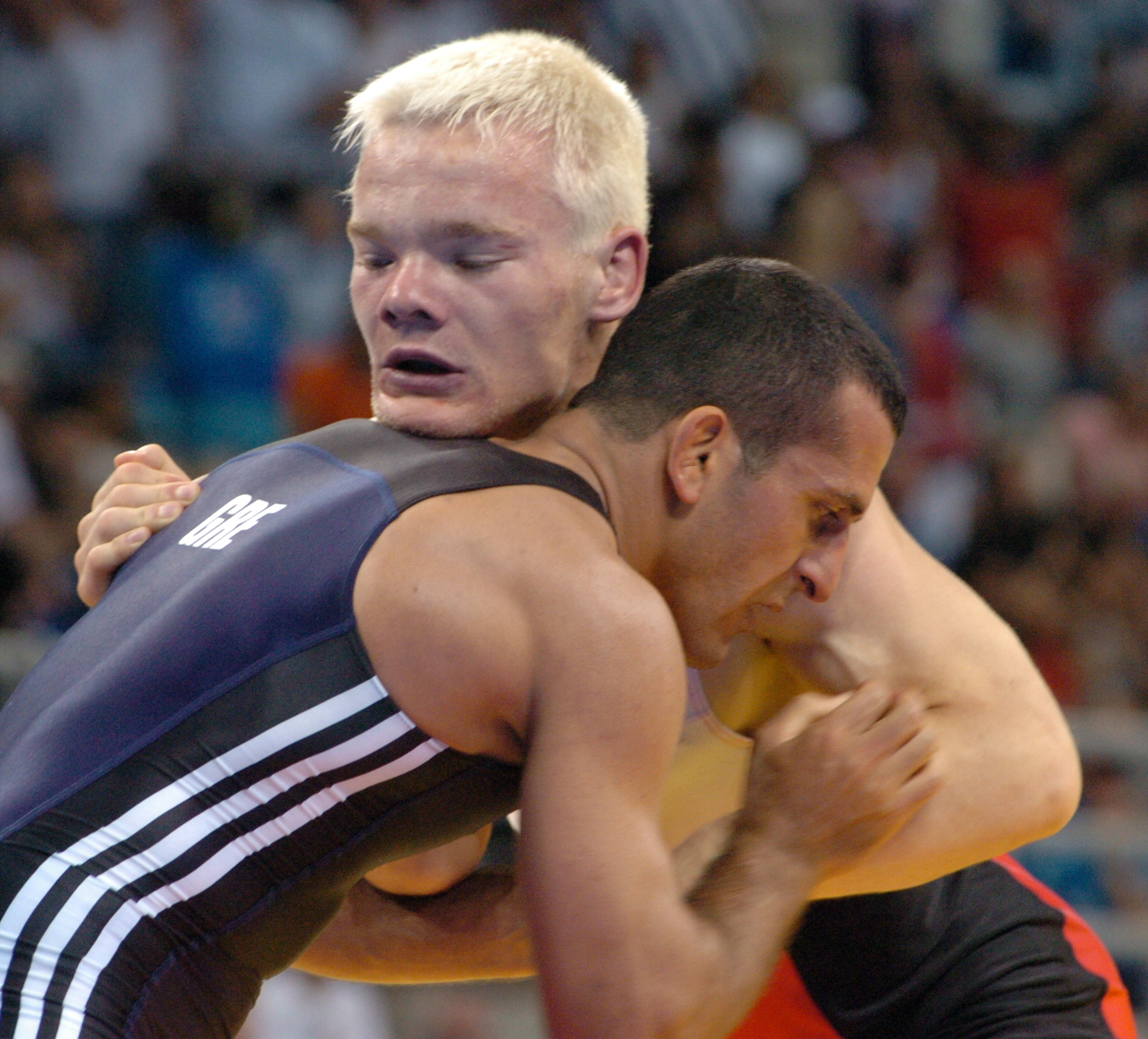 2004 Summer Olympics - Army World Class Athlete Program - FMWRC - U.S. Army - Official Image Archive - Athens Greece - XXVIII Olympiad